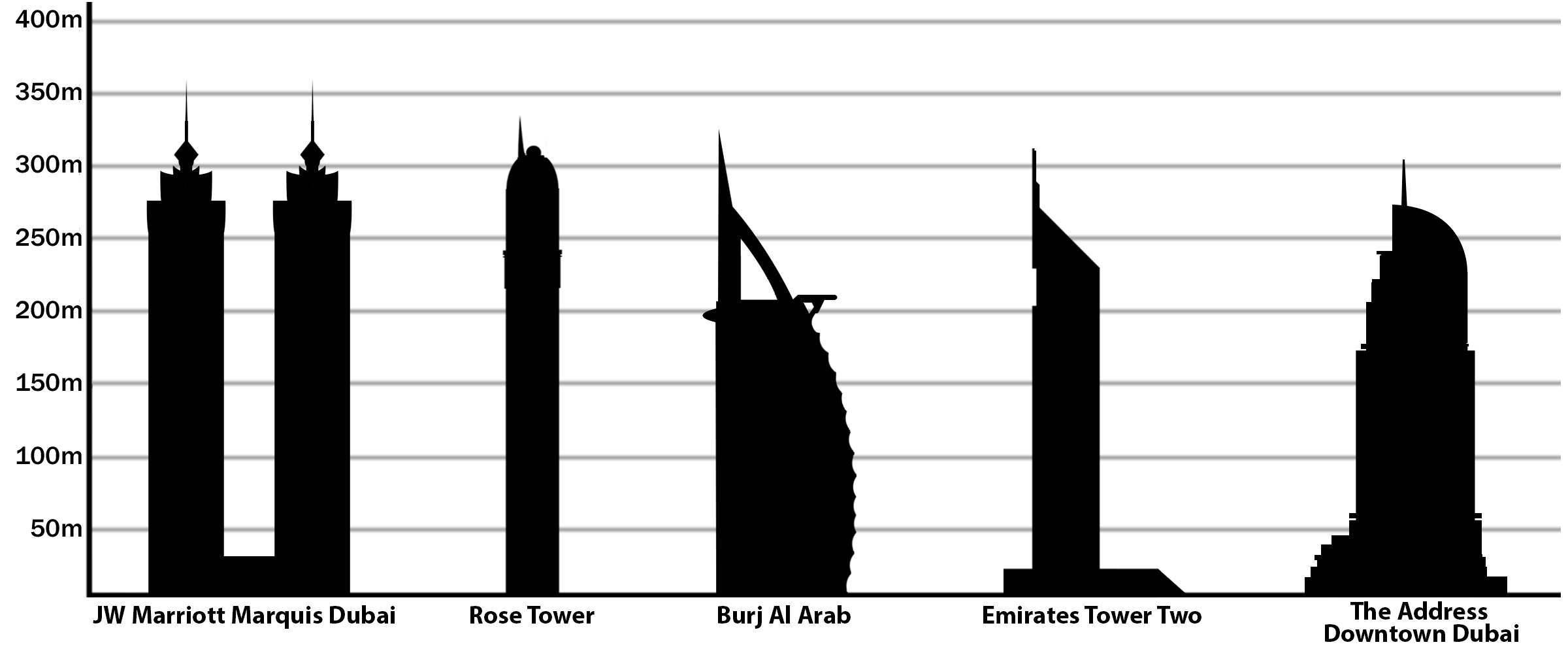 Tallest hotels in the UAE; Used data from .